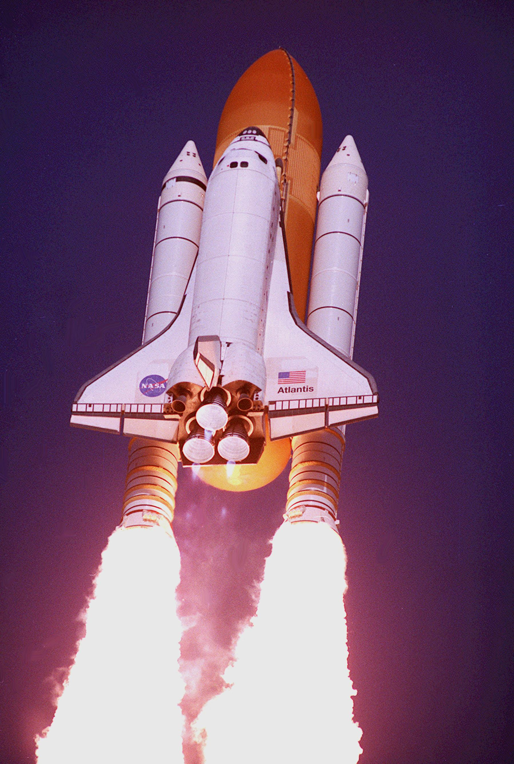 Space shuttle Atlantis starts it STS-106 mission towards ISS.